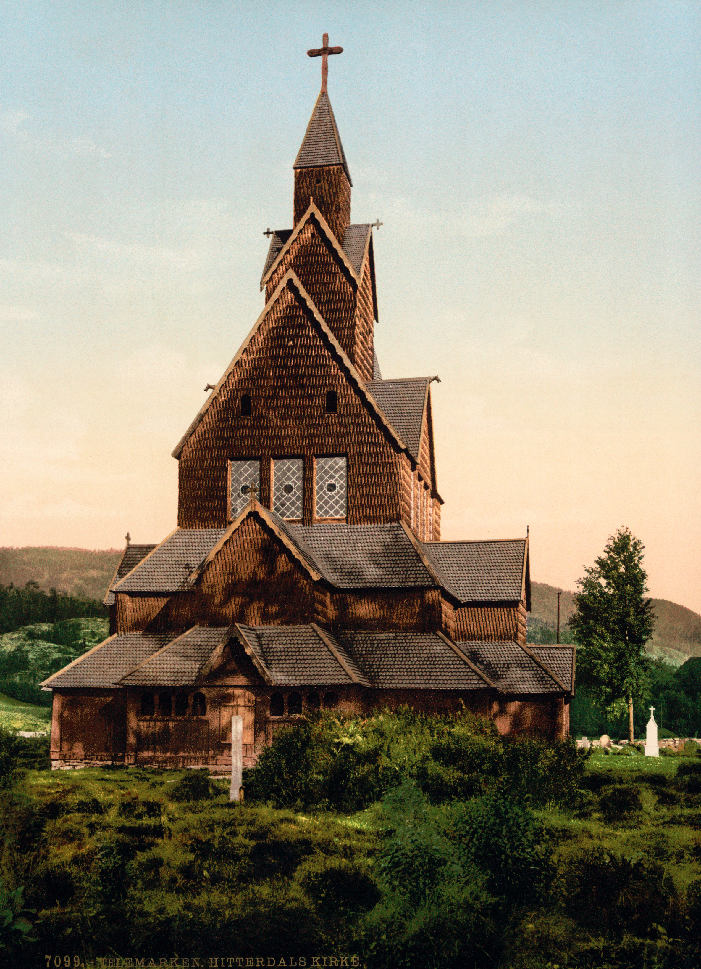 The Heddal stave church in Heddal, Telemark, Norway.